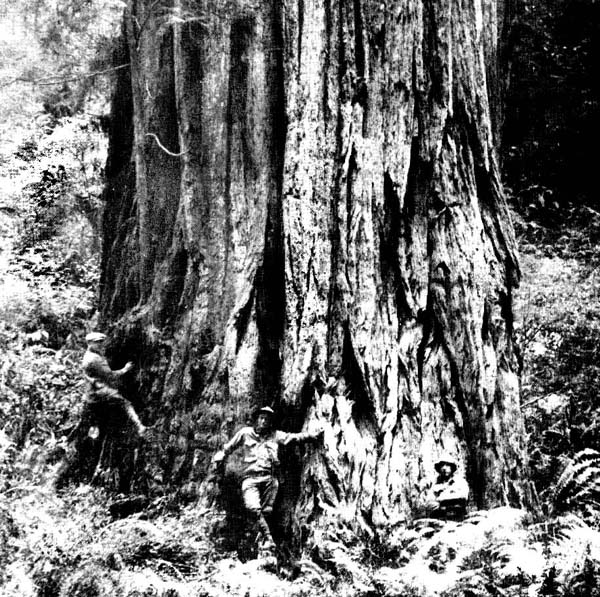 Frederick Russell Burnham bought a 5,000-acre cattle ranch, La Cuesta, at Three Rivers, California, near the entrance to Sequoia Park.